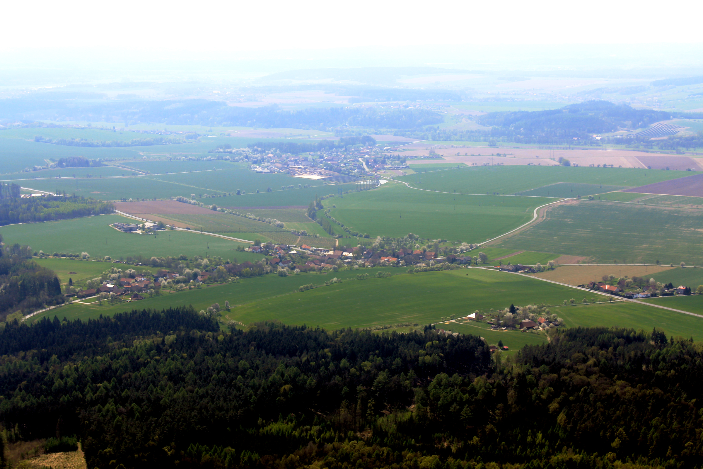 Village Domašín, part of Černíkovice and village Třebešov in Rychnov nad Kněžnou District from air, eastern Bohemia, Czech Republic